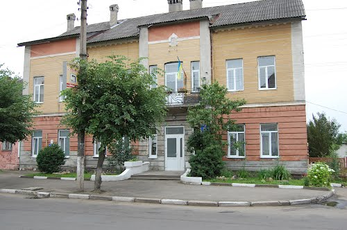 Станція швидкої медичної допомоги